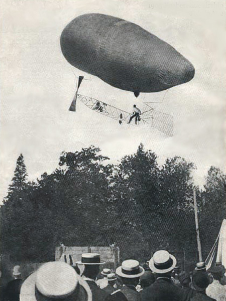 photo description: Often printed as postcard captioned "Roy Knabenshue at Brockton MA Fair (4 Oct 1905)", this photo captures Toledo Nº2 rising from starting point at 62nd Street and Central Park West. Knabenshue made two flights from this location - the first, on 20 August 1905, to 42nd Street, the second, on the 1st (September), to 18th Street, returning in each case to Central Park.